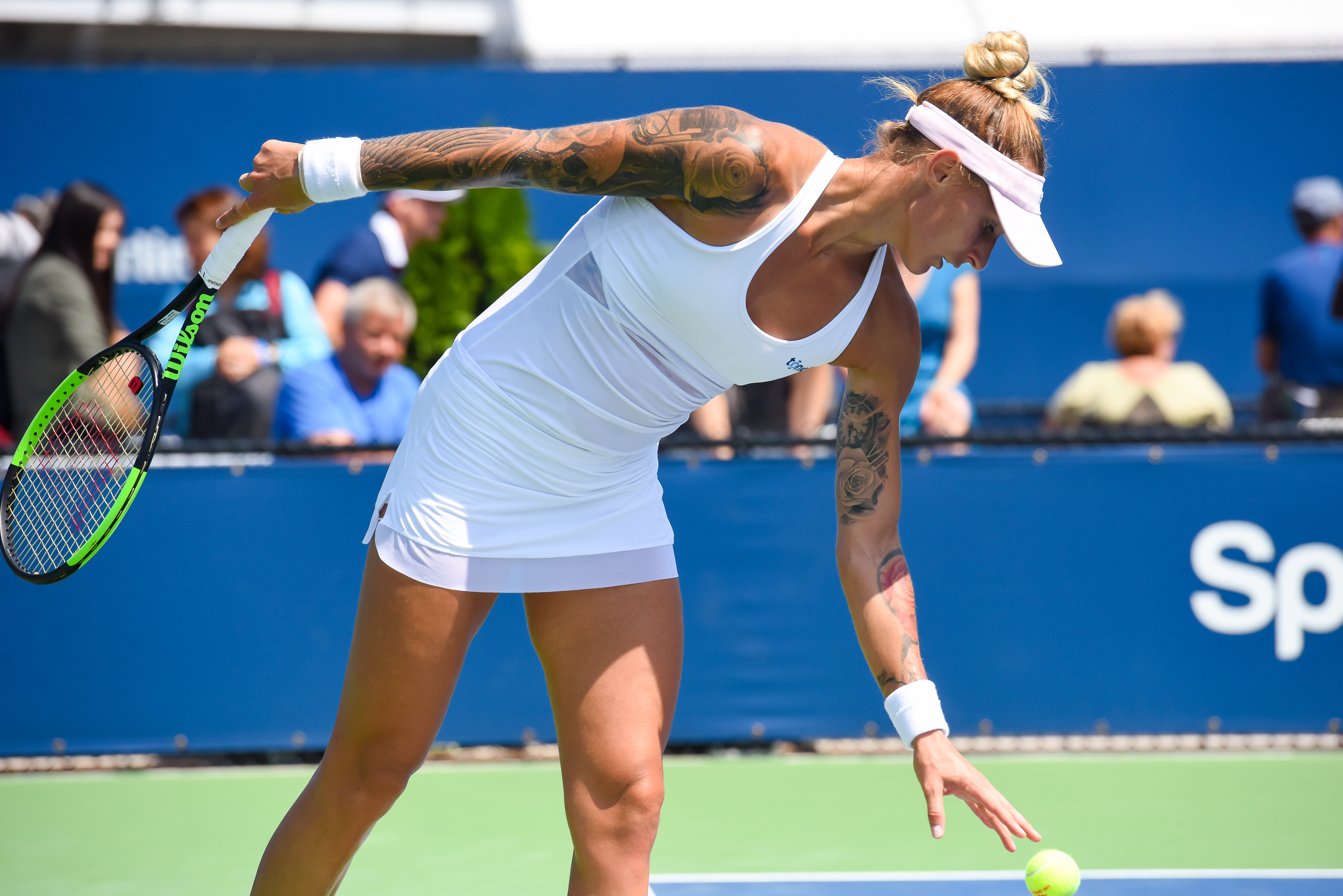 August 24, 2017 Court 15 Flushing, NY Polona Hercog.